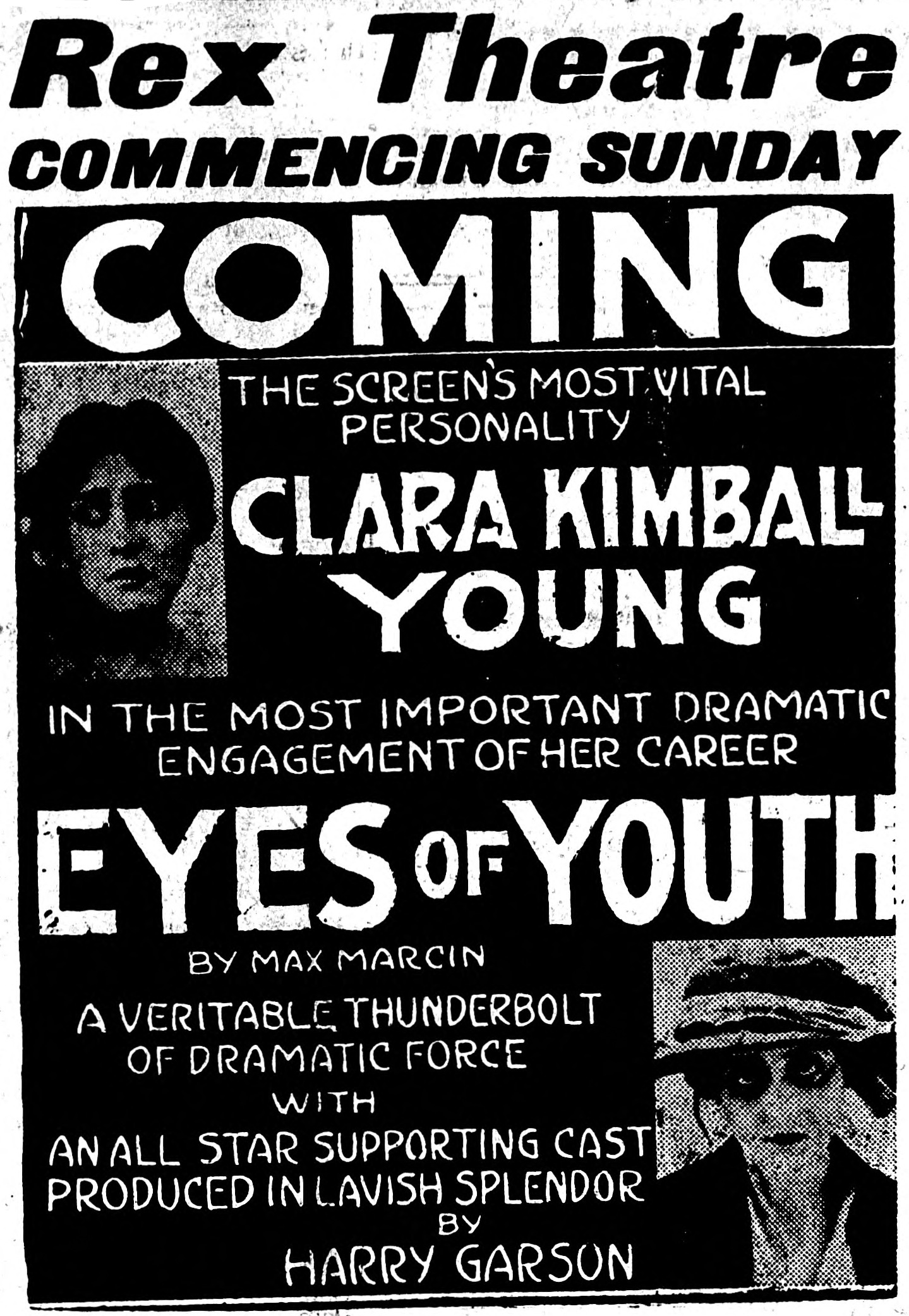 Eyes of Youth (1919) is a silent film directed by Albert Parker and starring Clara Kimball Young. This is a newspaper advertisement for the film.